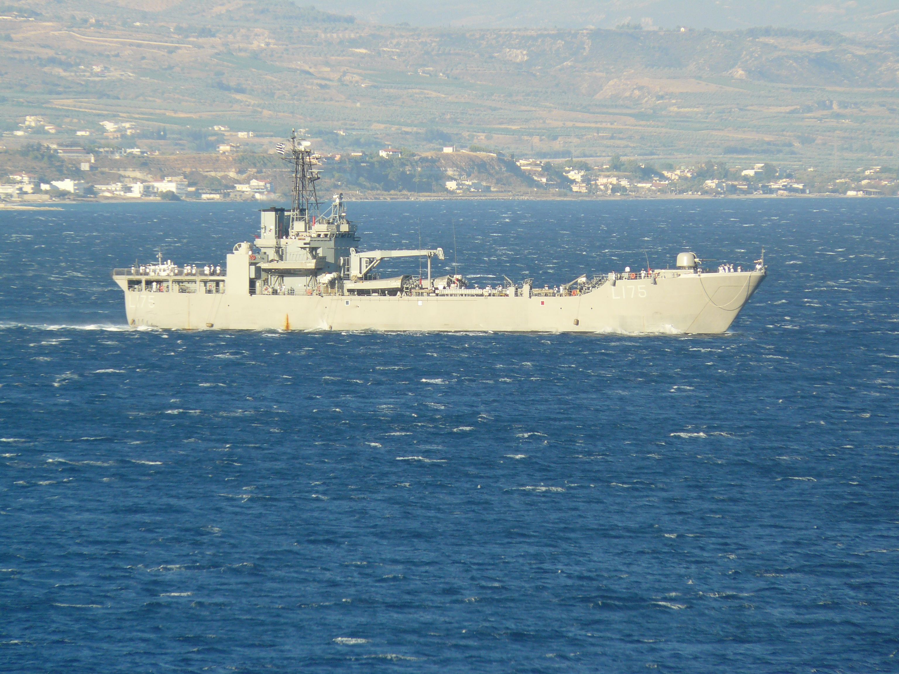 Greek Amphibious assault ship HS Ikaria (L175) in the gulf of Corinth, waiting to pass the Corinth Channel.